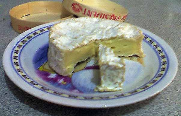 French-made Camebert cheese on a plate.